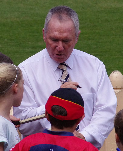 Australian cricketer Allan Border